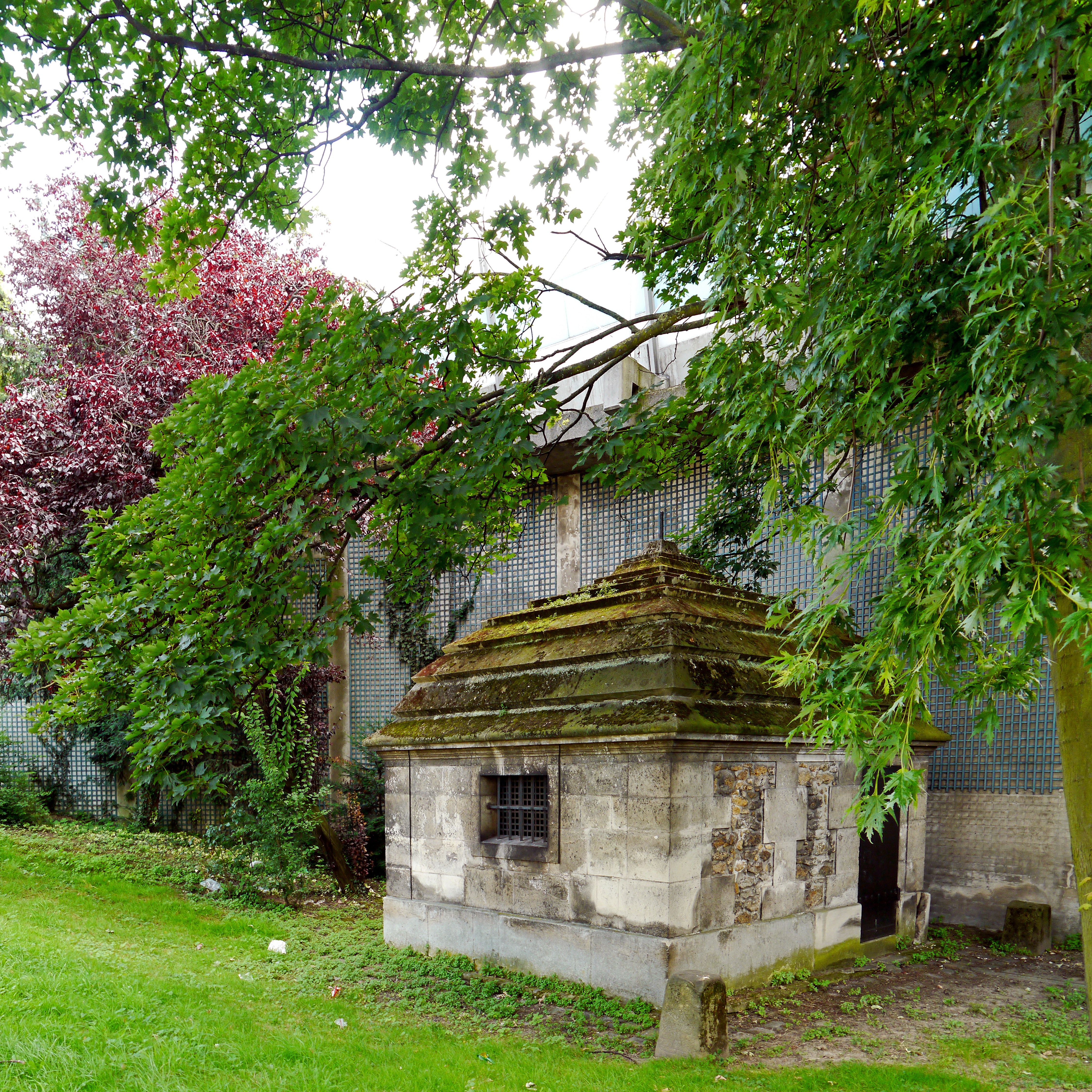 Paris, 19th arrondissement, France. Regard du Bernage.